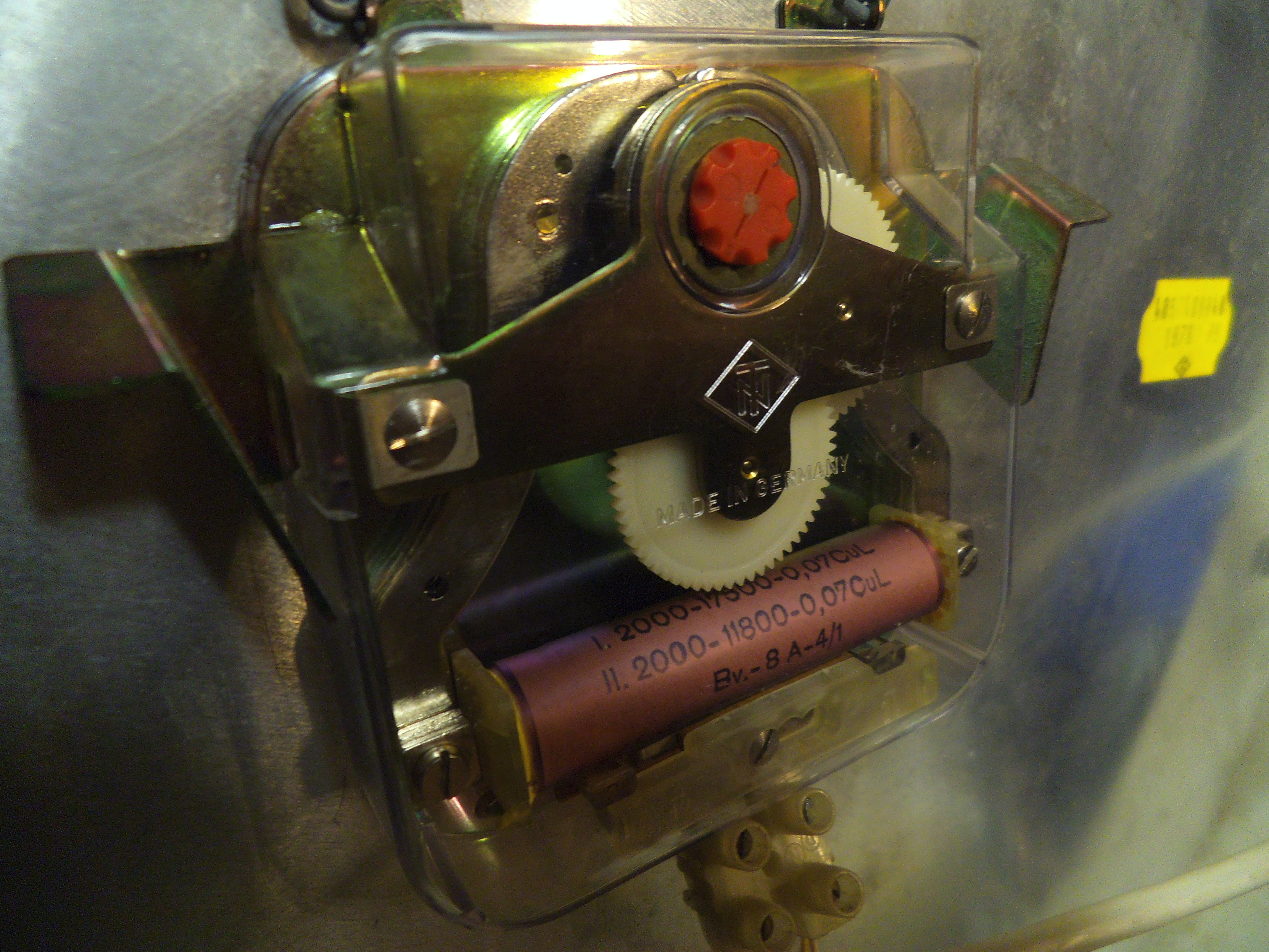 Lavet type stepping motor from a slave clock, manufactured by Telefonbau und Normalzeit (T&N) in March of 1976